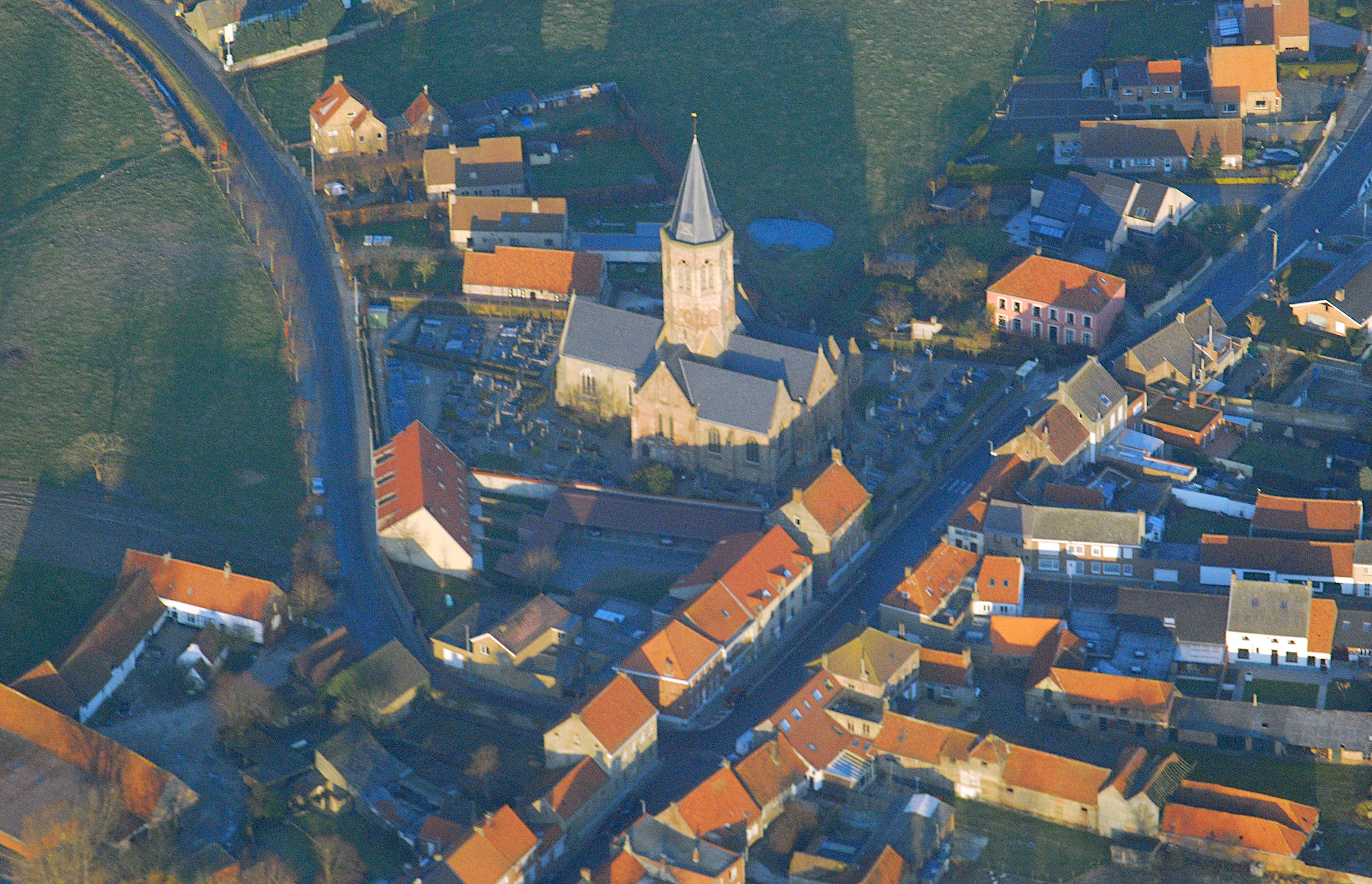 Aerial view from the Southeast towards the village centre of Stalhille, commune of Jabbeke, Belgium. Near the center is the octagonal tower of the church of Saint John the Baptist. Nikon D60 f=135mm f/10 at 1/250s ISO 800. Reduced and corrected using Nikon ViewNX 1.0.3 and Adobe Photoshop 4.0.